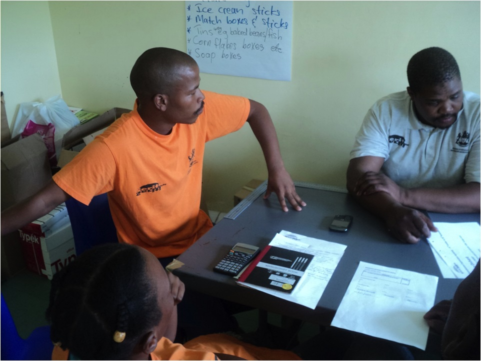 Negotiating the production/service contracts 2012 OW S Africa